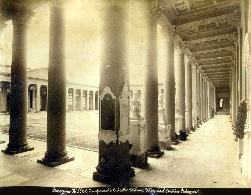 Fotografia dell'Emilia (Pietro Poppi, 1833-1914) - "Bologna - Cemetery. Cloister number 7."). Catalogue number: 5560.